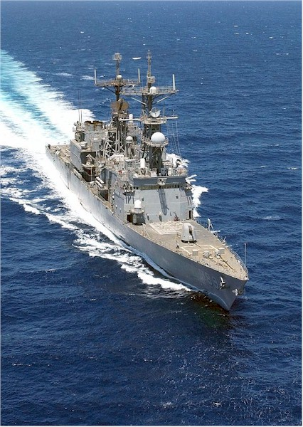 March 29, 2003, the Spruance Class destroyer USS Deyo (DD 989) conducts underway operations in support of Operation Iraqi Freedom. U.S. Navy photo.